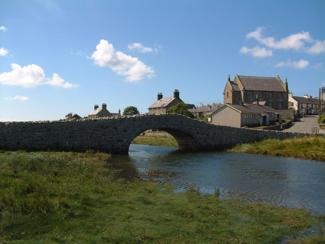 Aberffraw bridge Built in 1731 by Sir Arthur Owen.